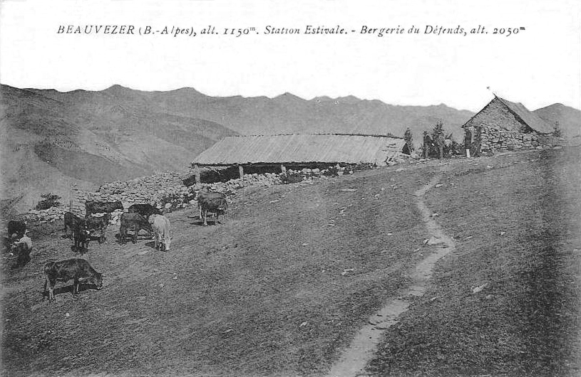 In a dry-stone walled enclosure stands a pillar-supported sheepfold with a double-sided roof covered with planks.